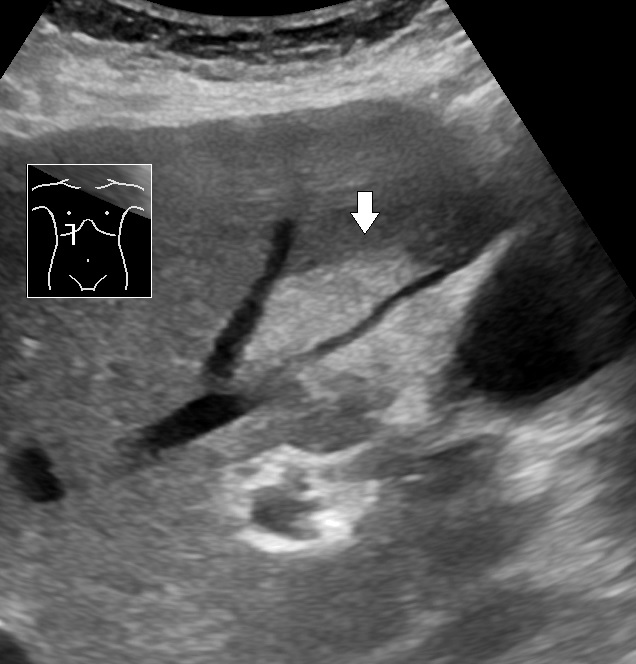 Abdominal ultrasonography of the liver of an 88 year old woman with suspected ascites, showing an incidental focal steatosis. It is distinguished from a tumor by not compressing the hepatic vein going through it.